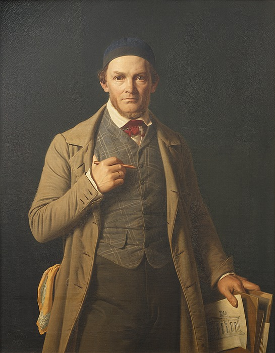 Constantin Hansen (1804-1880), Portrait of Gottlieb Bindesbøll, 1849, Thorvaldsens Museum